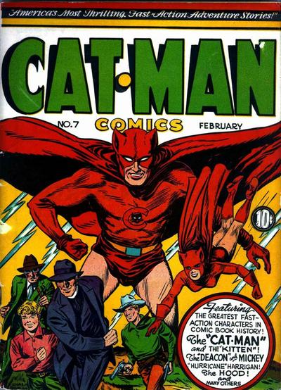 Cover, Cat-Man Comics #7 (vol. 2, #12)- February 1942 - Holyoke (defunct publisher). Cover art by Charles Quinlan (both pencils and inks per Grand Comics Database)